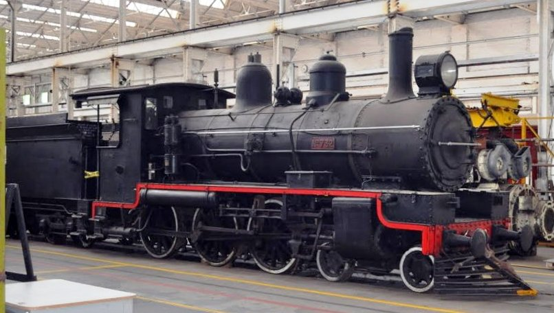 PB15 732 at the Workshops Rail Museum, North Ipswich, Queensland.